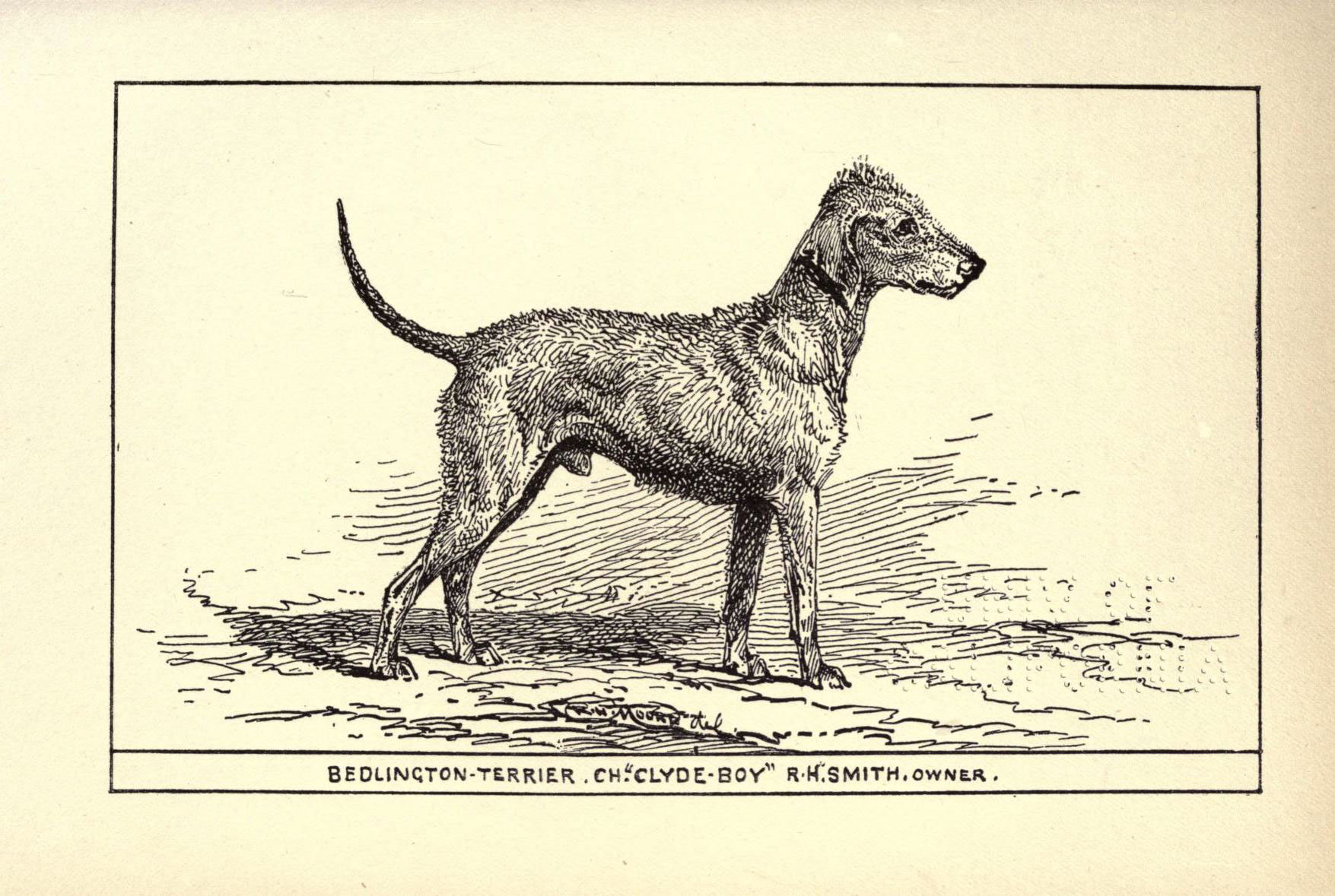 All about dogs; a book for doggy people New York,J. Lane,1900.